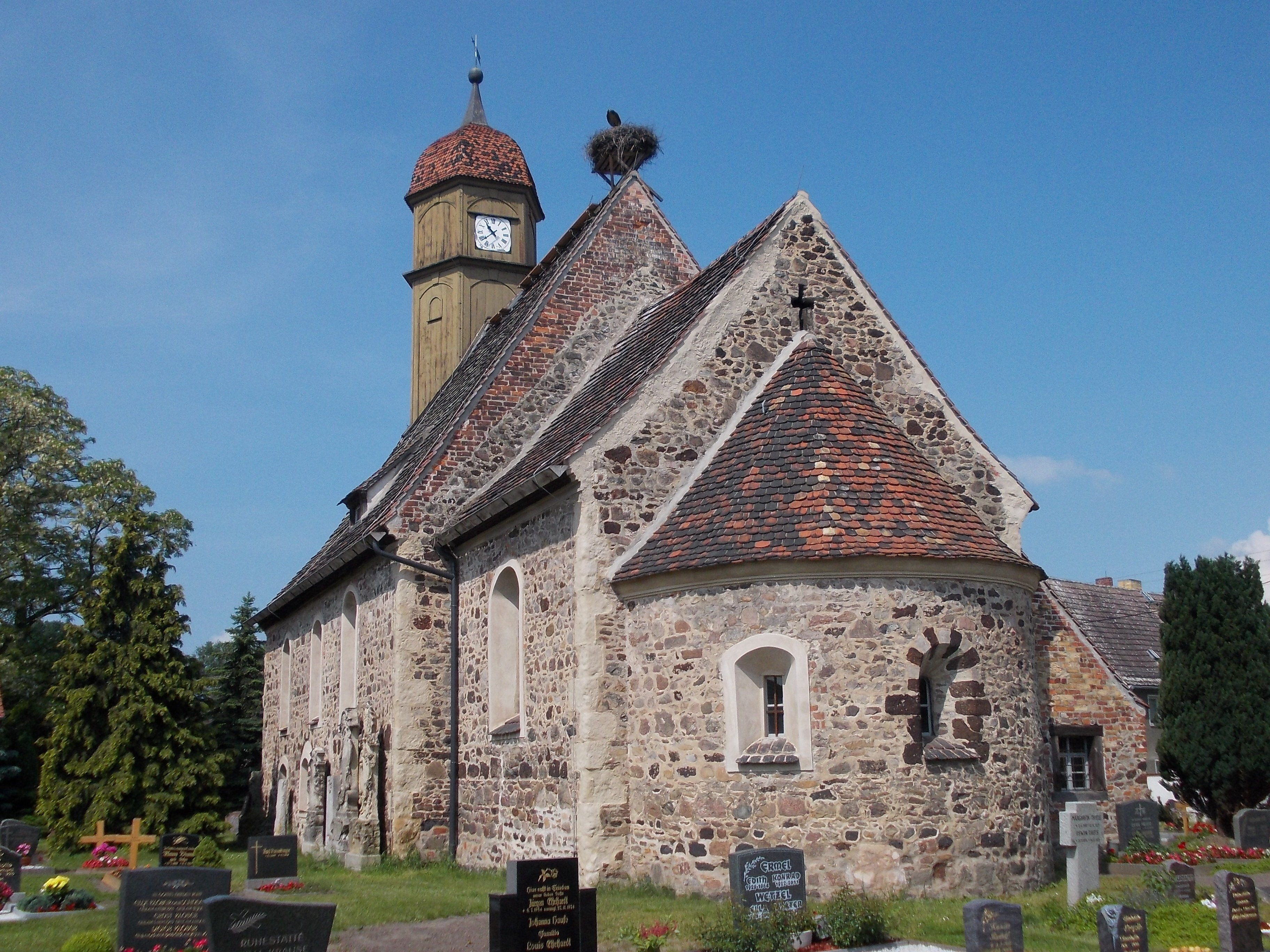 Klitzschen church (Mockrehna, Nordsachsen district, Saxony)